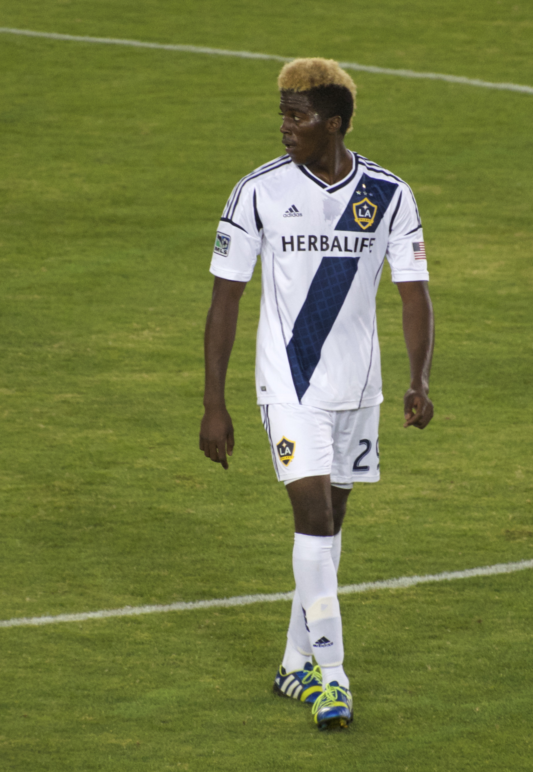 Gyasi Zardes, Stanford Stadium, LA Galaxy vs SJ Earthquakes, Saturday 2013-06-29